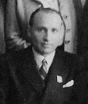 from Photograph of the Préfecture of Bordeaux staff with Gason Cusin and Maurice Papon